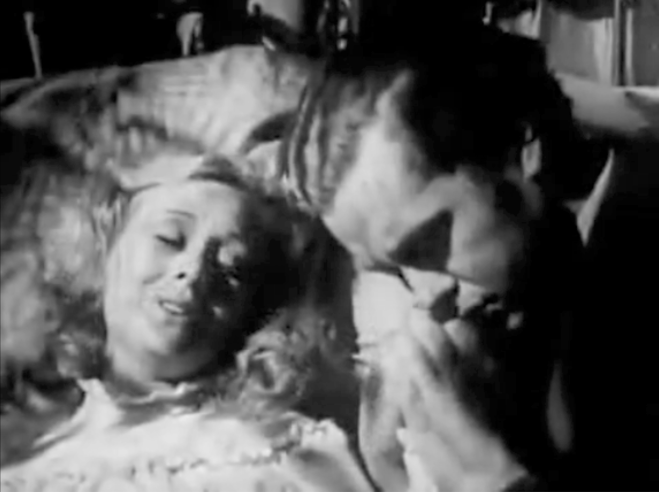 Screenshot of Dolores Costello and Tim Holt from the trailer for the film The Magnificent Ambersons.